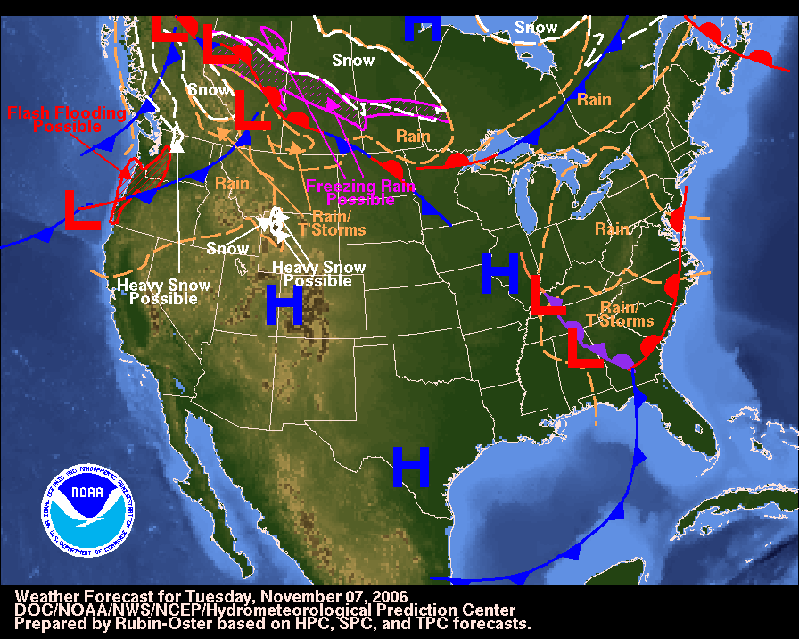 NOAA continental US weather forecast map for Election Day 2012-18-8